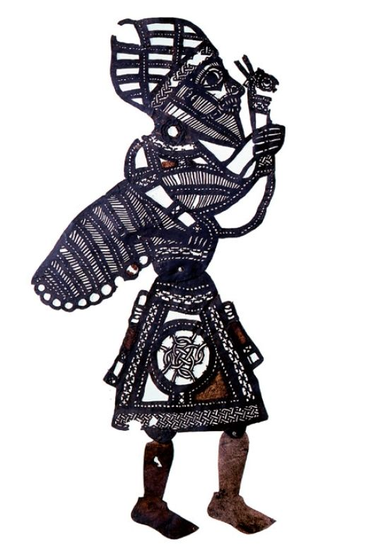 Shadow puppet of a man carrying a peacock. Egypt, 14th to 18th century. Collected by Paul Kahle 1909.